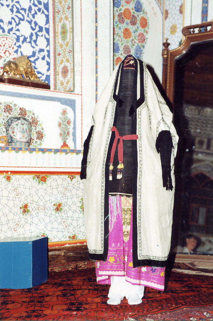 example of an Uzbek paranja